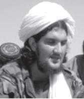 Abdullah Mehsud is frequently described as a former Guantanamo captive. But he is not listed on the official list of Guantanamo captives. This is a most wanted poster.